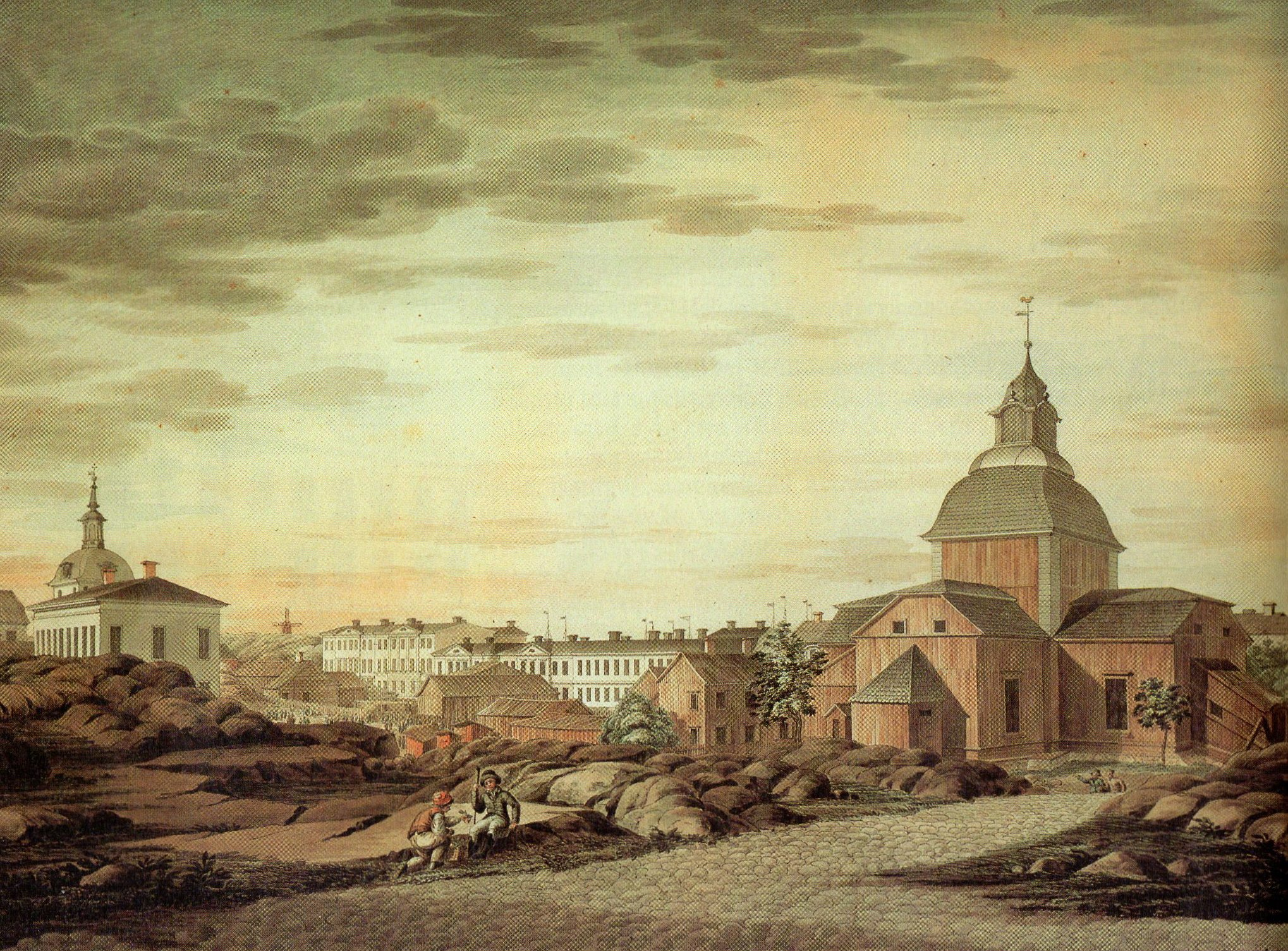 Watercolor painting of the old Main Square in Helsinki by Carl Ludvig Engel, later changed to Senate Square according to his plans. The view is from where the National Library is now located. Ulrika Eleonora Church is visible on the right. Newly renovated facades of the Helsinki center's buildings can be seen in the background.